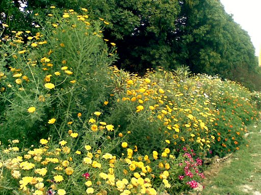 Author: Apoorv Khurasia This image depicts a flower line on the side of a road in the IIT Delhi campus. This institute has beautiful gardens maintained all inside the campus.